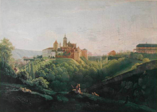 Antonín Mánes: View on the Prague Castle.